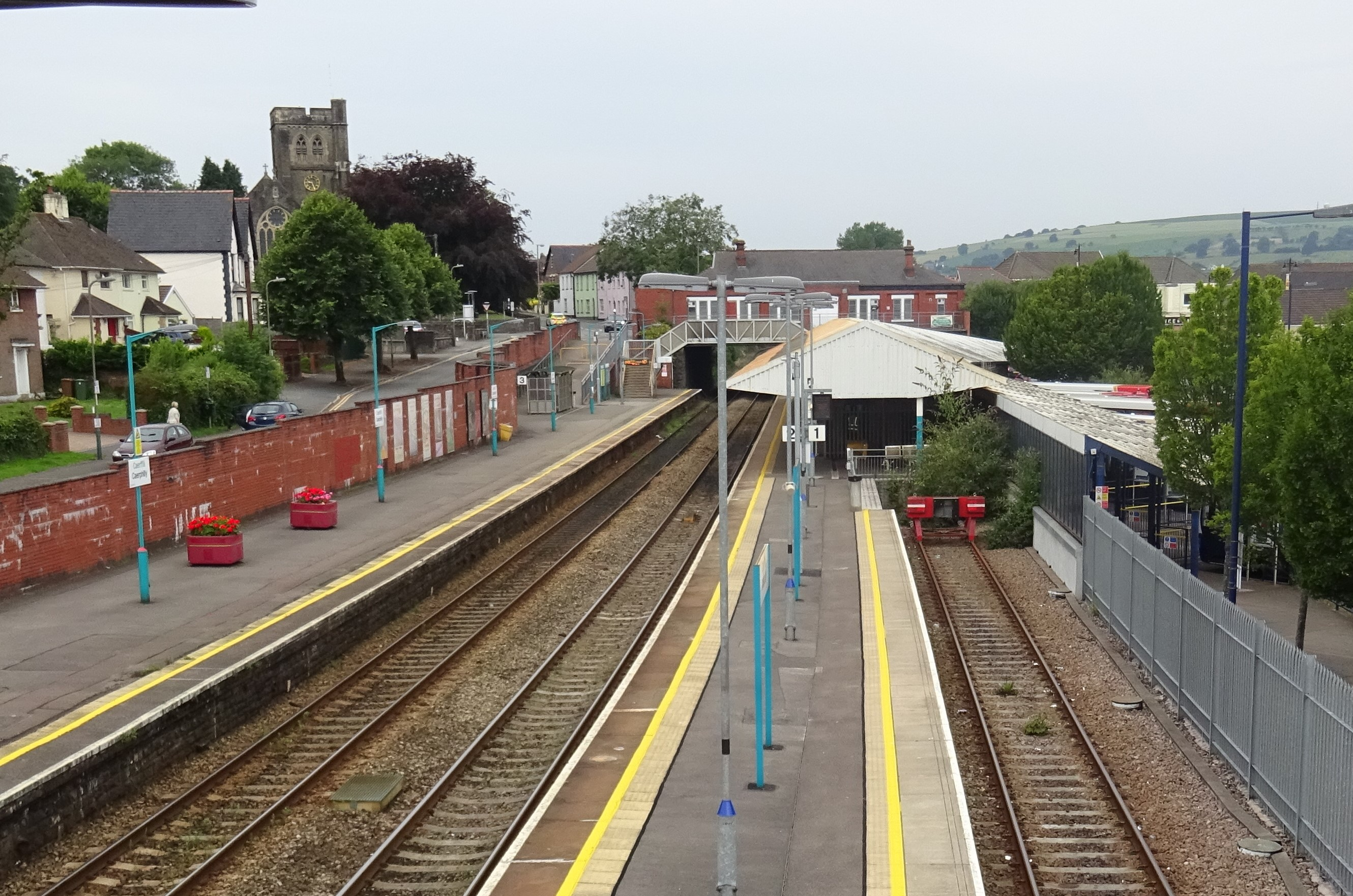 Caerphilly railway station, The Rhymney Line, South Wales. View towards Bargoed.